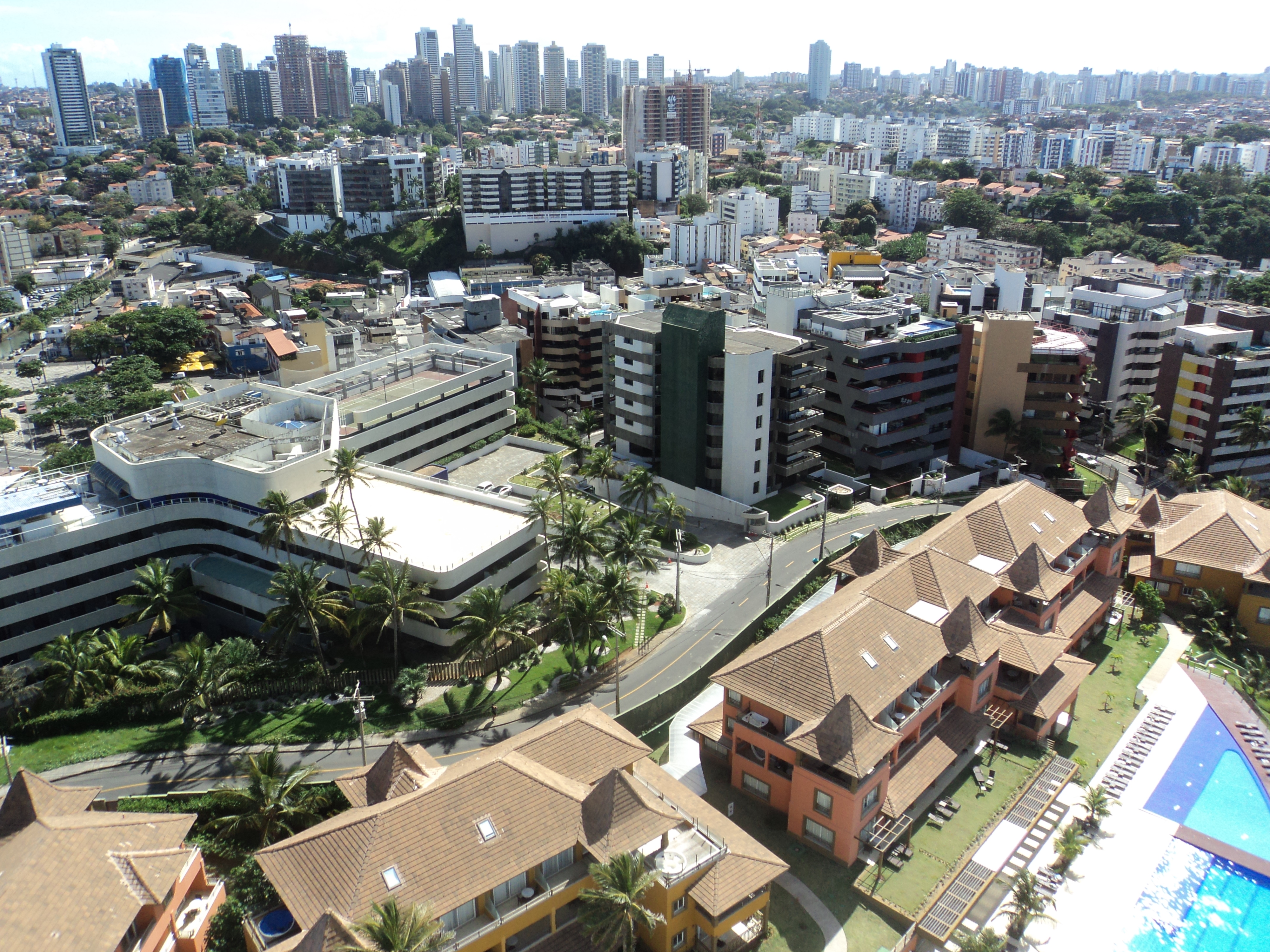 Salvador skyline.